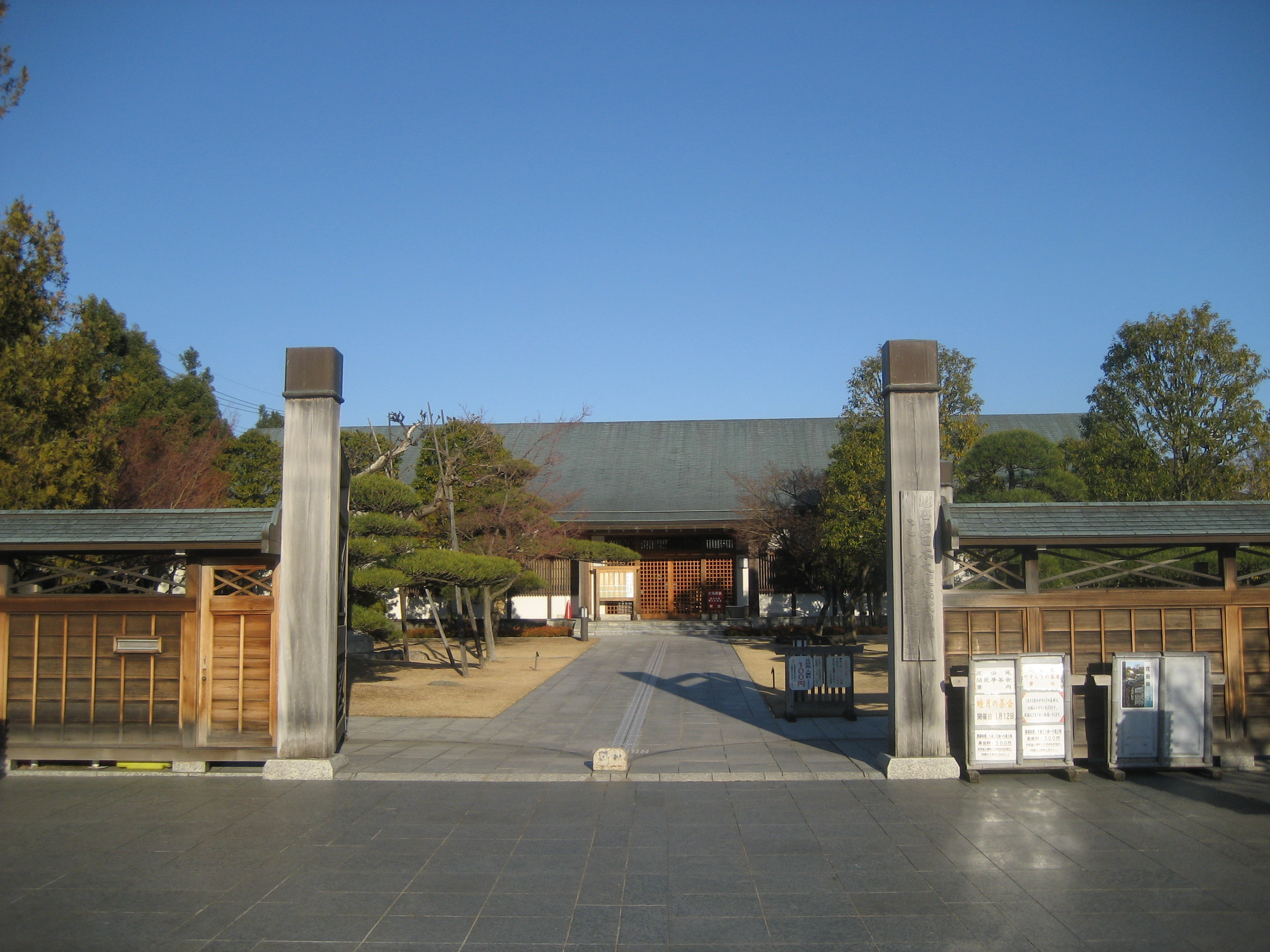 The Koshigaya Noh Theater in Kohigaya City, Saitama Prefecture, Japan